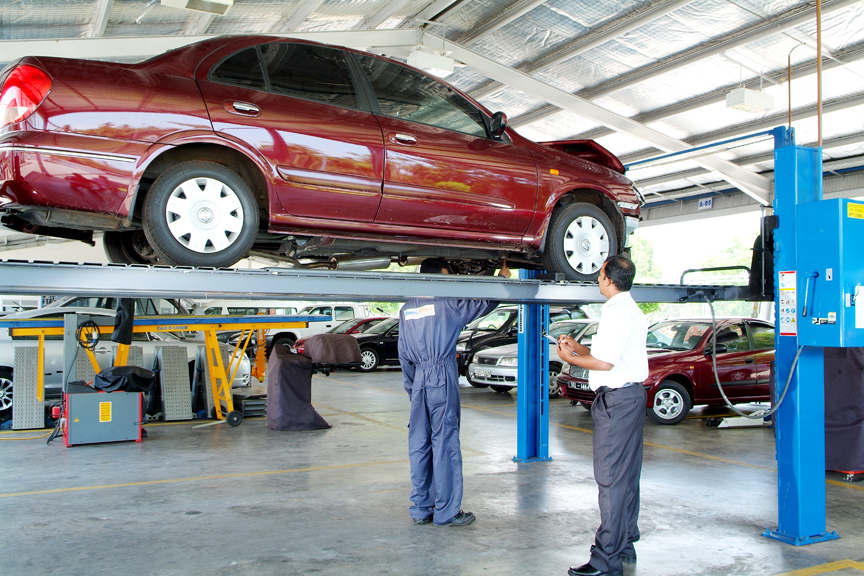 Checking colisions